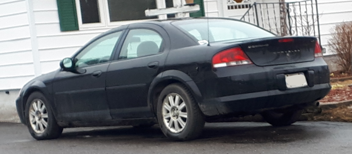 2002 Chrysler Sebring LX photographed in Sault Ste. Marie, Ontario, Canada